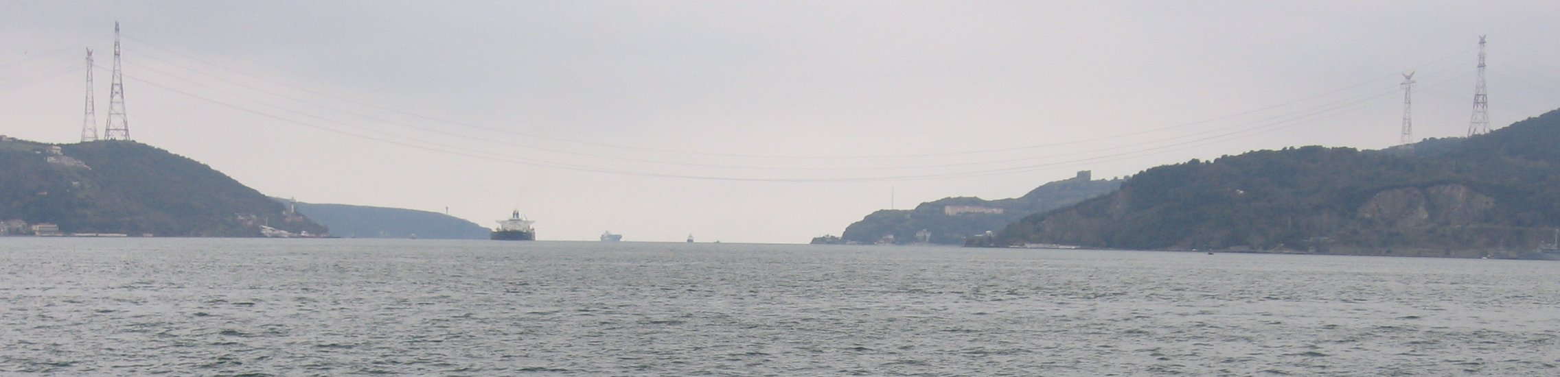 380 kV Bosphorous crossings - looking NE from Kireçburnu